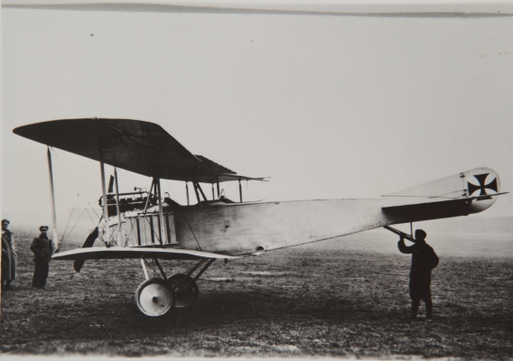 Albatros B.III.